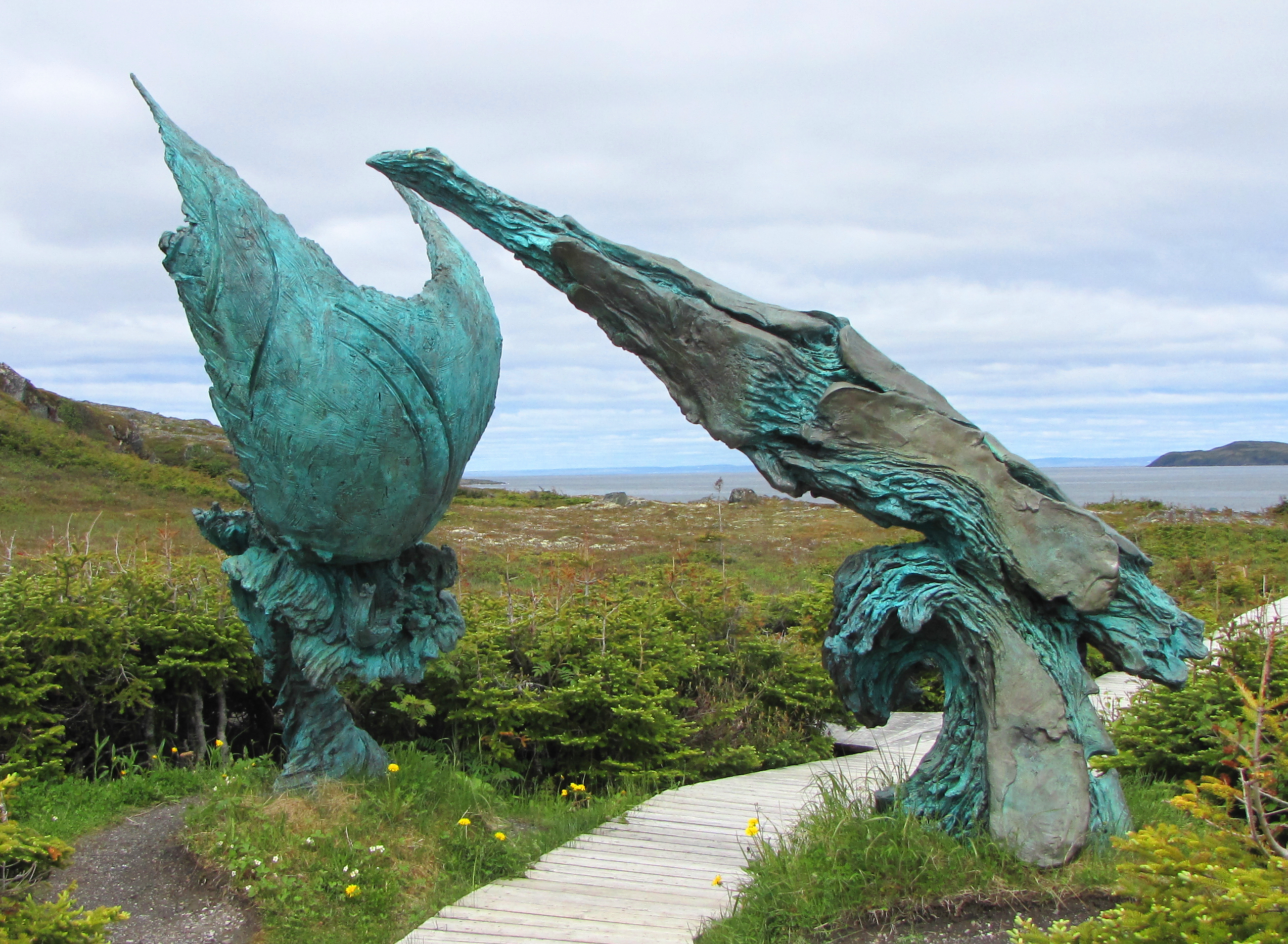 The Meeting of Two Worlds, sculpture, L'Anse aux Meadows, Newfoundland and Labrador, Canada. Sculptors: Luben Boykov, a Newfoundland immigrant and Richard Brixel, a Swedish national, unveiled on July 5, 2002